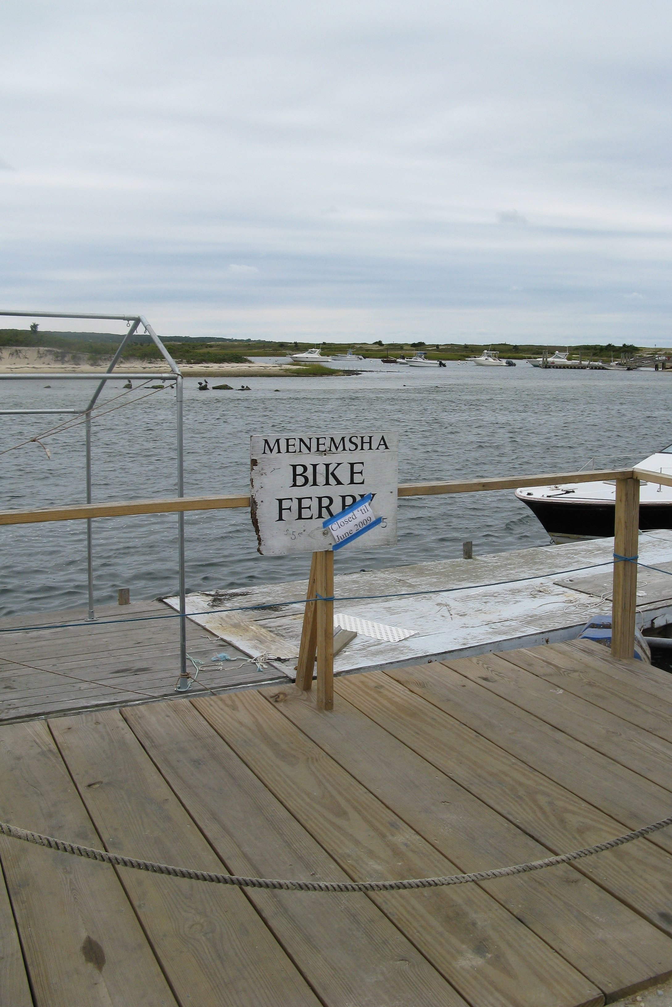 Bike Ferry, Menemsha Massachusetts